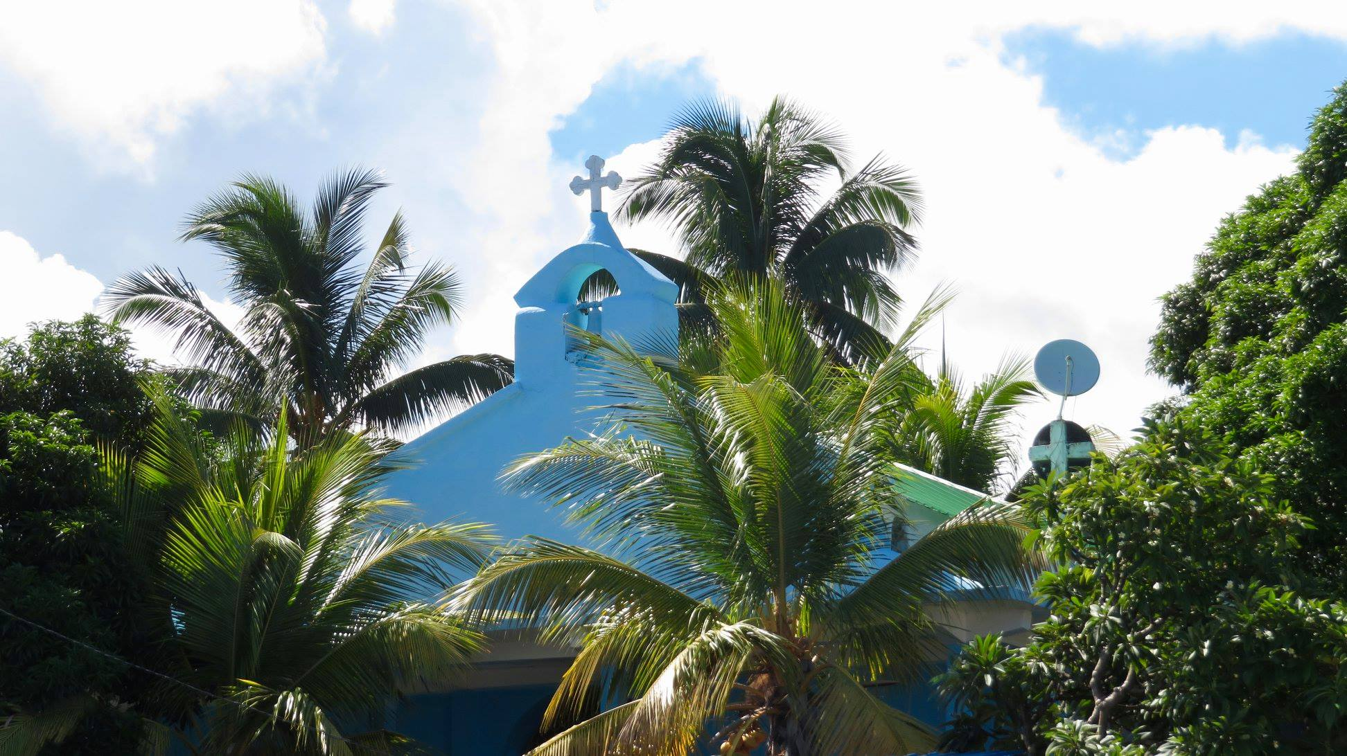 Church in Anjouan